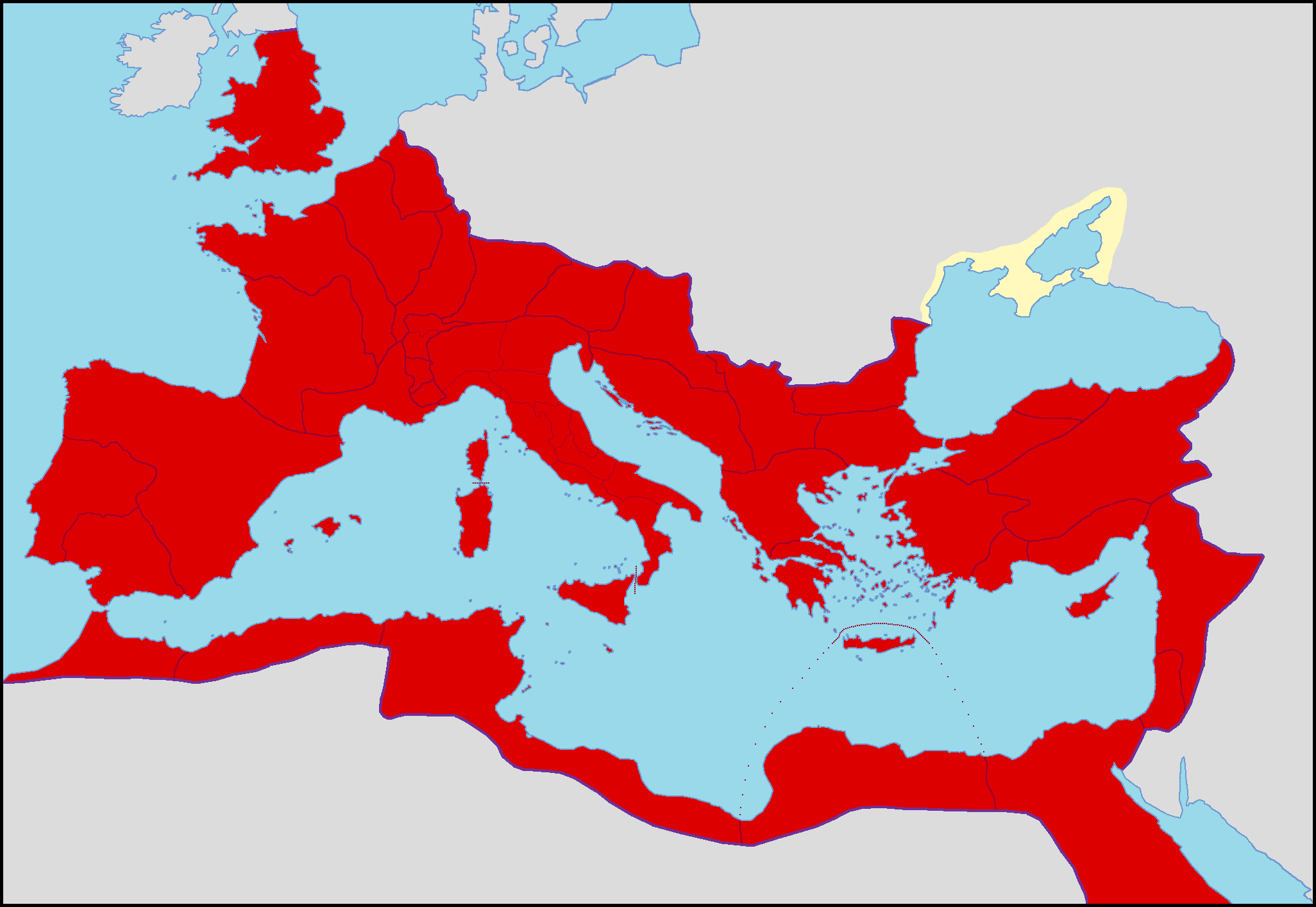 Map of the Roman Empire in 96 AD